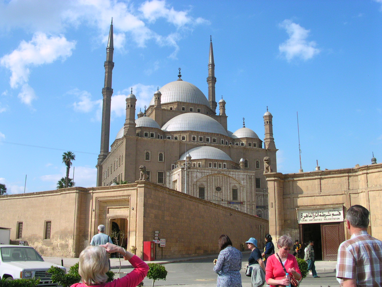 Cairo Citadel February 2007. The Muhammad Ali mosque.